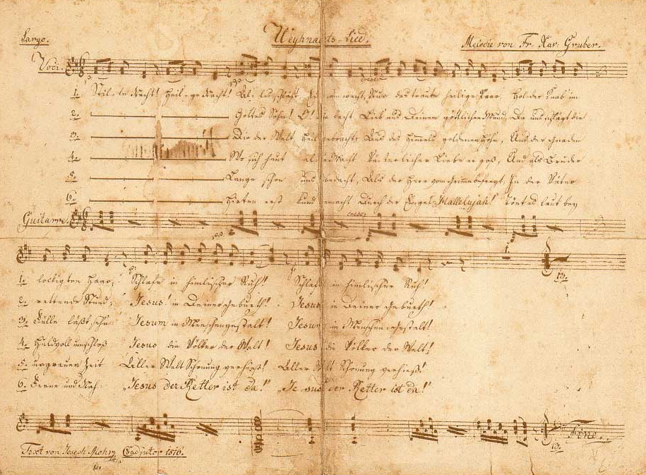 Stille Nacht, written by Joseph Mohr